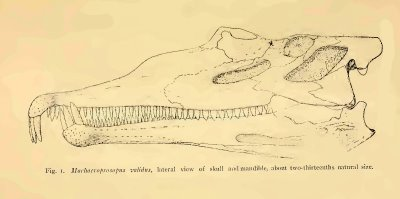 Illustration of the skull of Machaeroprosopus validus from "New or little known reptiles from the Trias of Arizona and New Mexico with notes from the fossil bearing horizons near Wingate, New Mexico" by Maurice Mehl, W.C. Toepelmann, and G.M. Schwartz (University of Oklahoma Bulletin 103 :1-44).